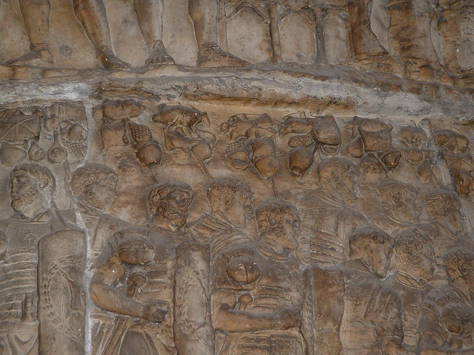 Roman soldiers with marching packs. From the cast of Trajan's column in the Victoria and Albert museum, London. Gaius Cornelius 17:03, 2 September 2005 (UTC) Alternative view - context Alternative view - detail Alternative view - detail